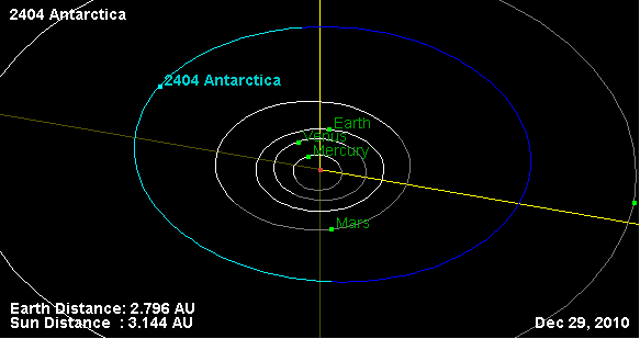 A diagram showing the orbit of the asteroid 2404 Antarctica.